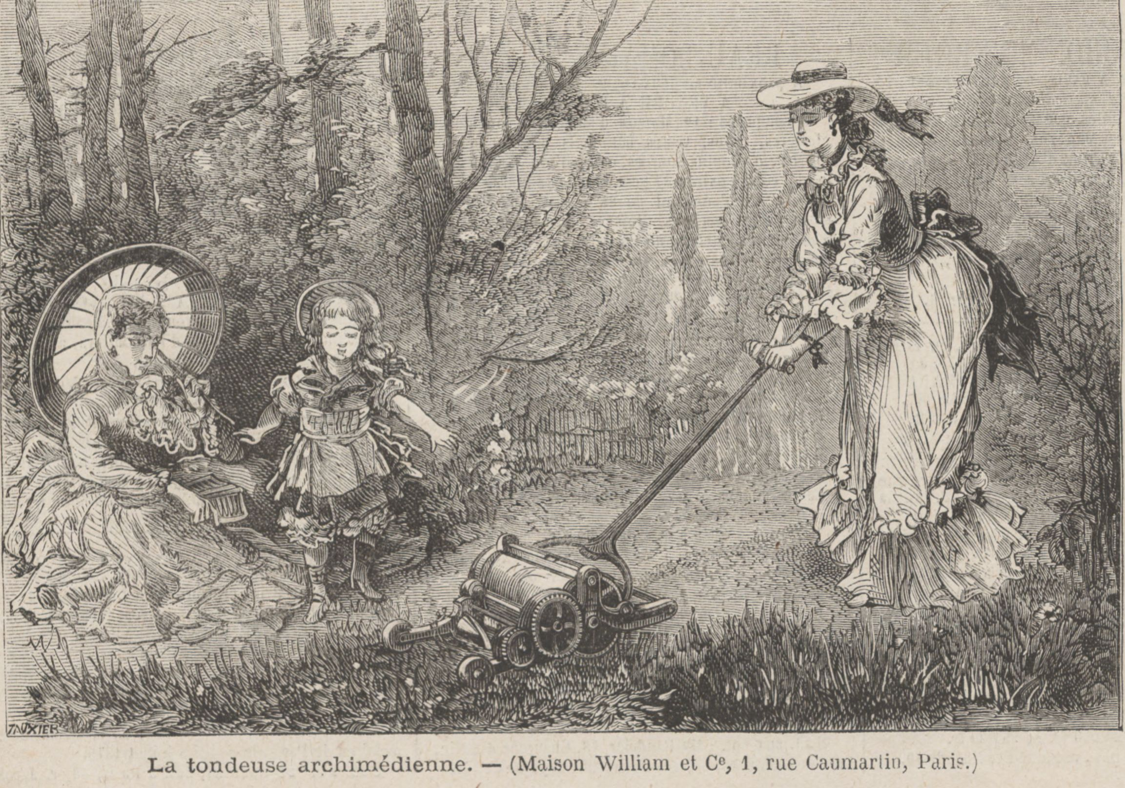 Archimedean Lawn Mower advertisement in Le Monde illustré, 1875 (engraving)